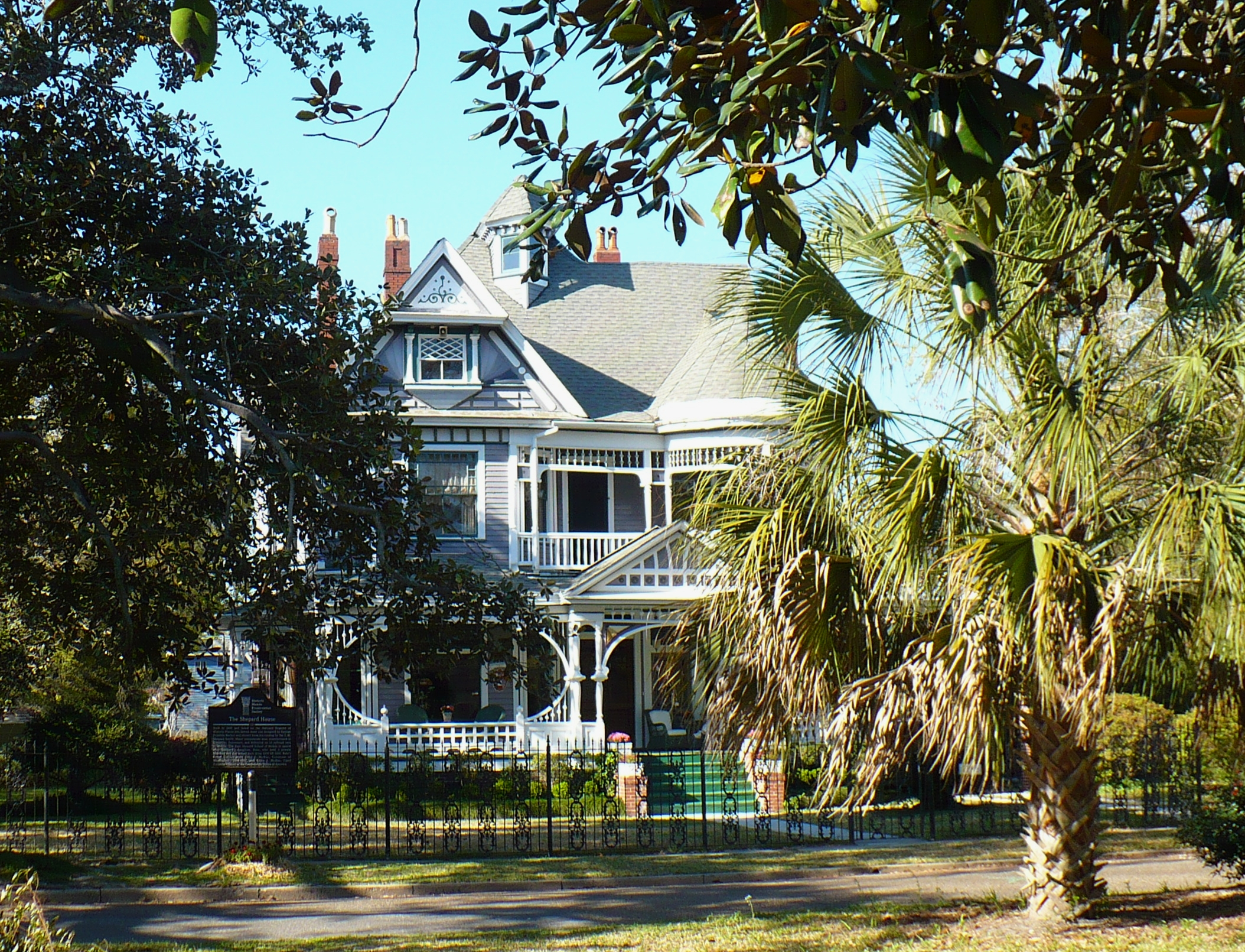 The Shepard House (Monterey Place) in Mobile, Alabama. Built in 1897 and on the National Register of Historic Places.